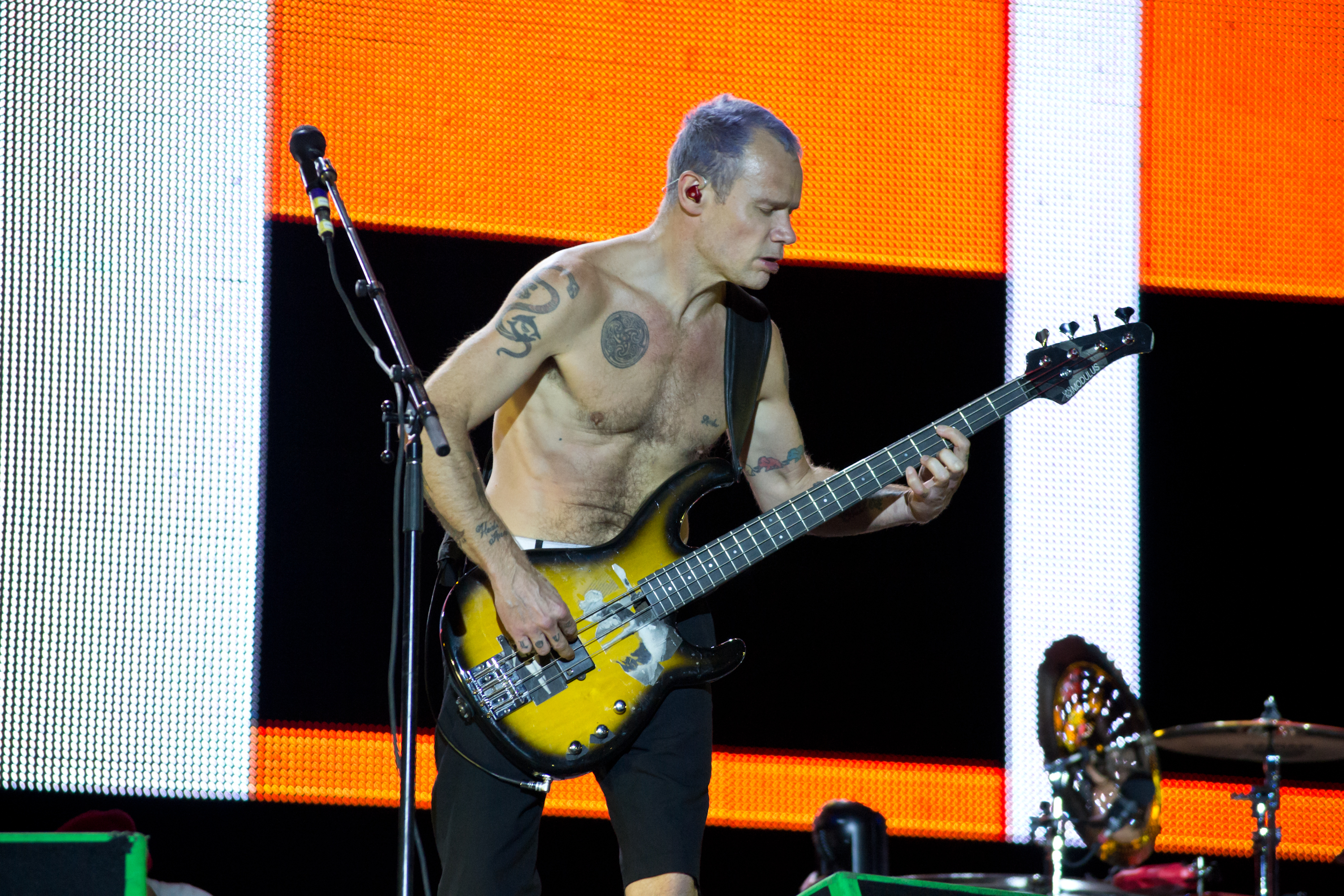 Red Hot Chili Peppers in Rock in Rio Madrid 2012.